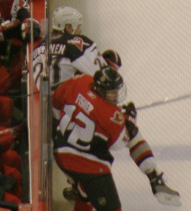 Ottawa Senators forward Mike Fisher throws a check against Buffalo Sabres player Teppo Numminen in the 2006 National Hockey League semifinals.